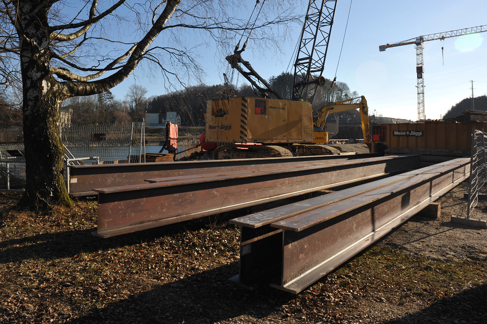 Temporary footbridge over the Aar in Hagneck; Berne, Switzerland. I-beams ready for use.